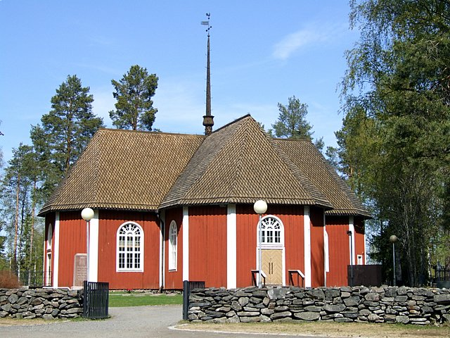 Old wooden church of Kiiminki, Finland, was built 1760 by Matti Honka.